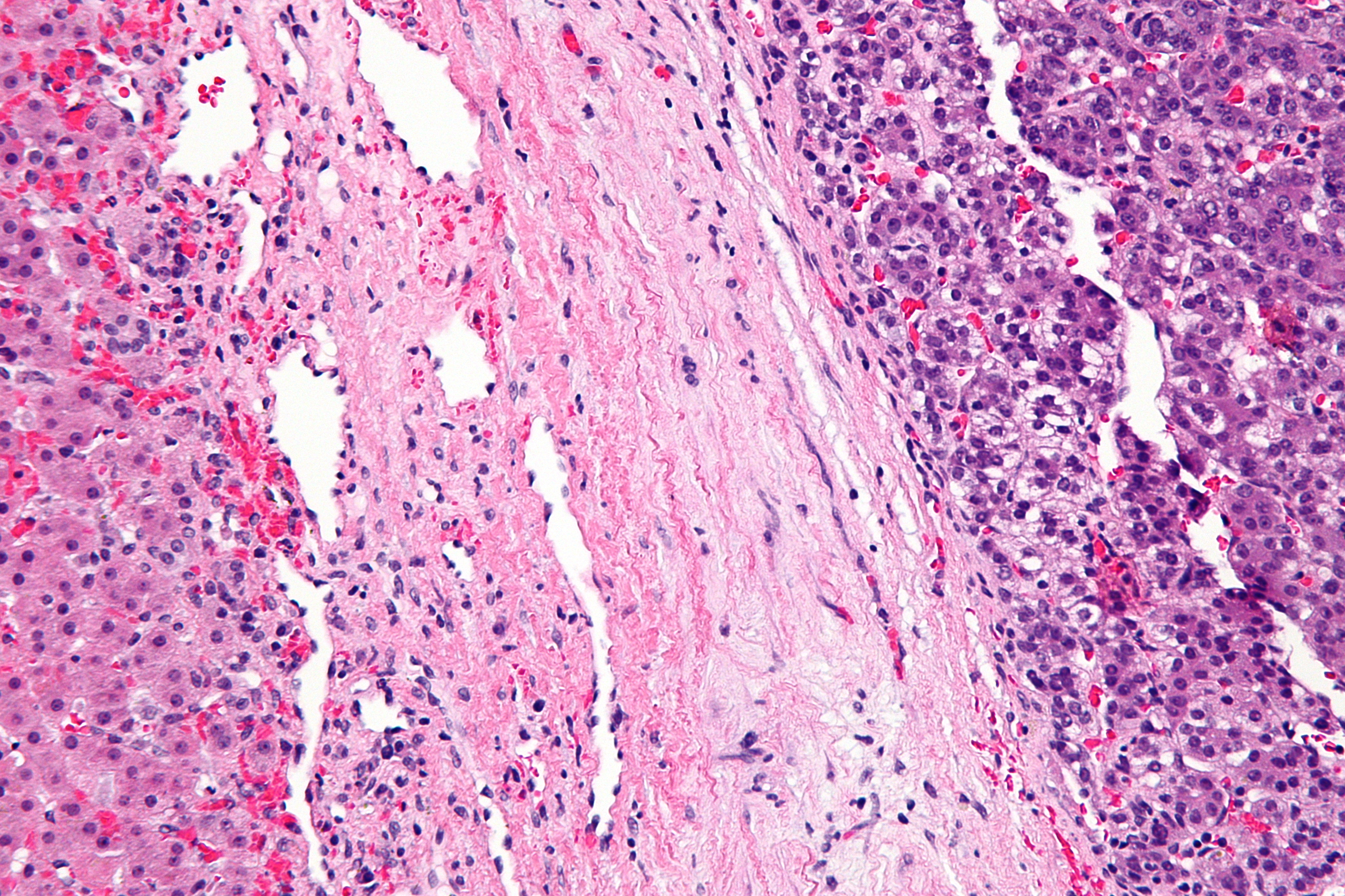 High magnification micrograph of a hepatoblastoma, a type of liver cancer found in infants and young children. H&E stain. Related images Low mag. High mag. High mag. Very high mag.